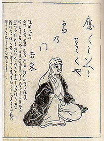 Mukai Kyorai (1651 — 1704). (向井 去来) Japanese poet